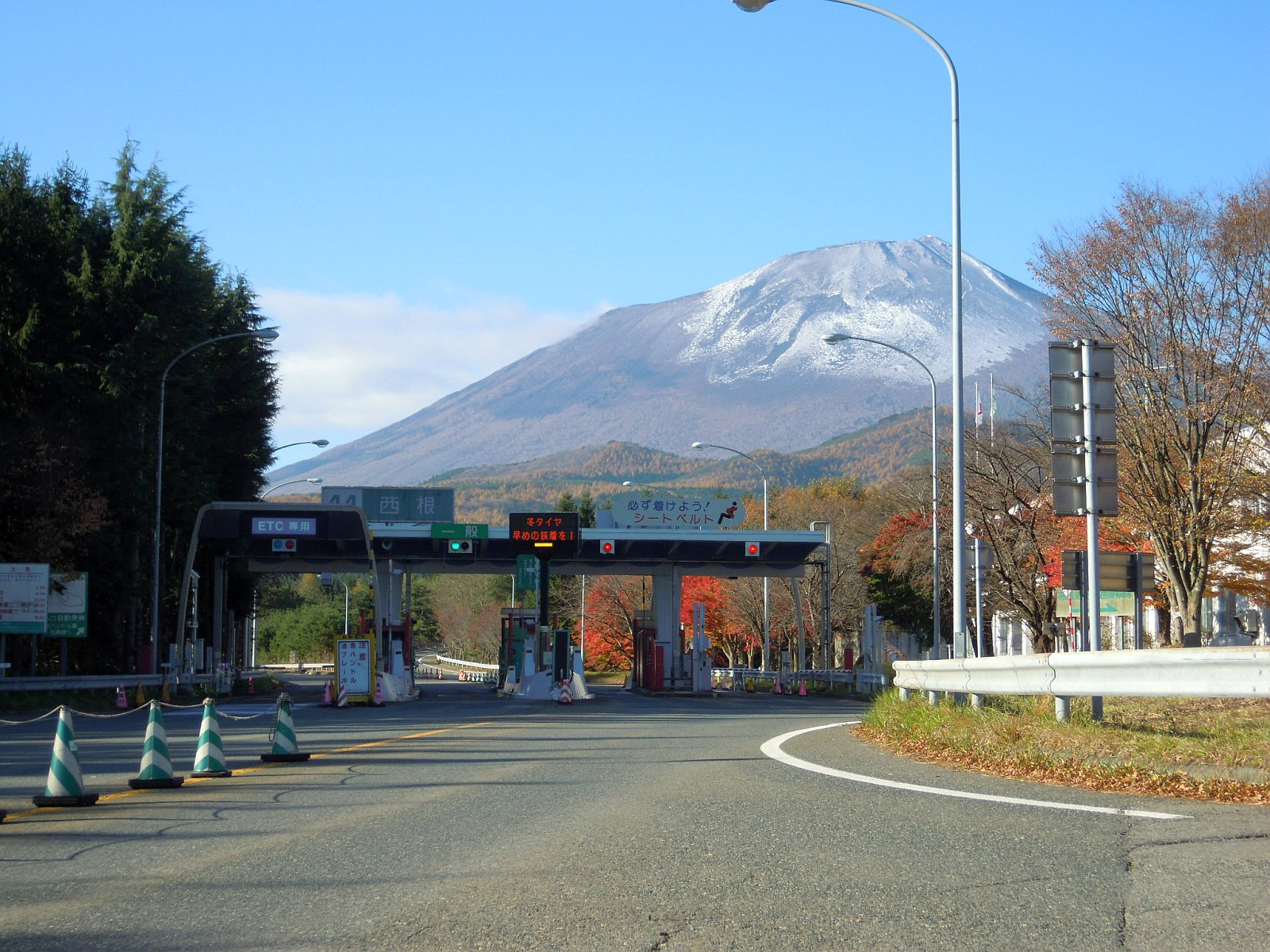 This Interchange, Nishine Interchange, is on Tohoku Expressway, in Hachimantai City Iwate Prefecture, Japan.